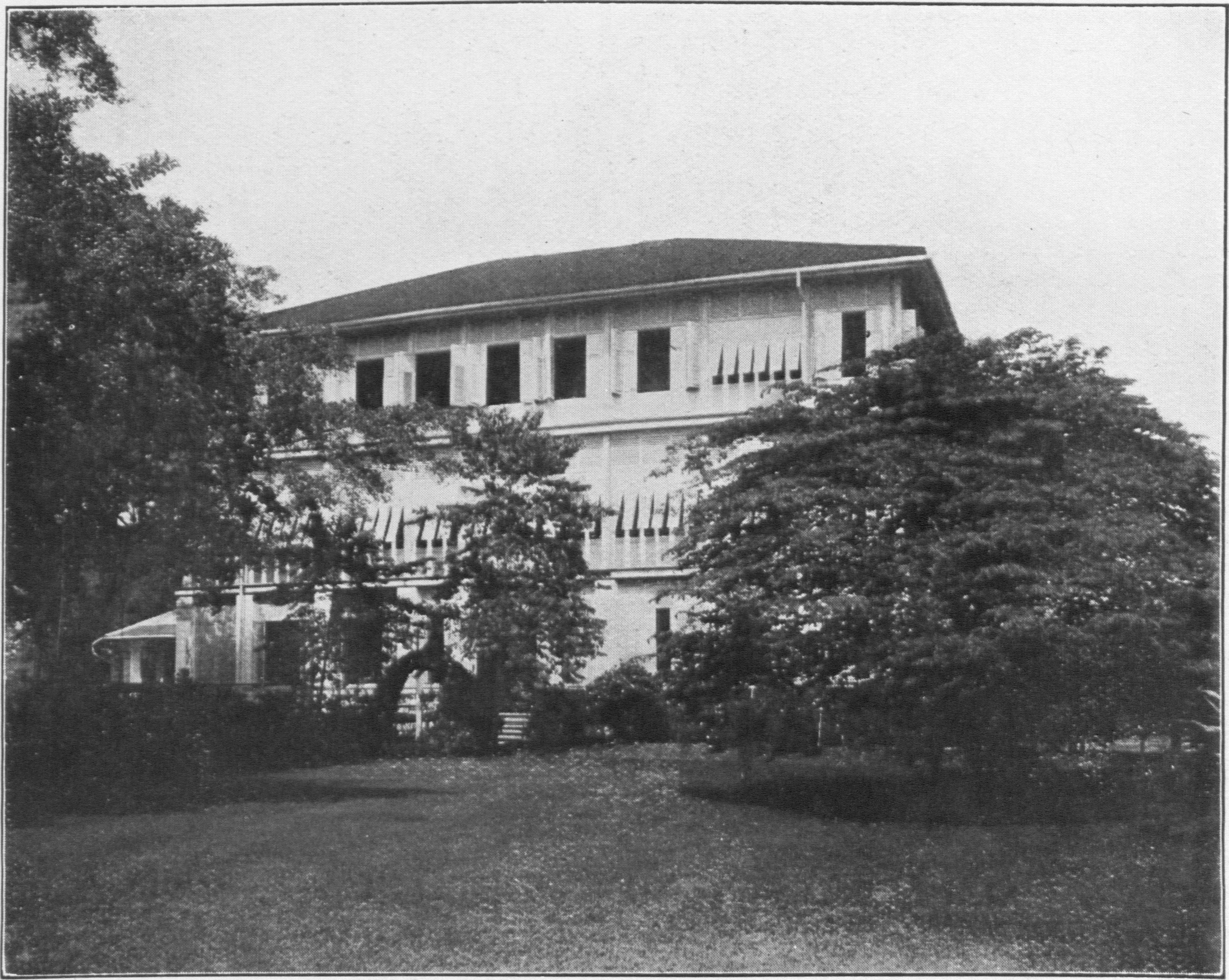 "The premises of the Hongkong and Shanghai Banking Corporation, Ltd." from Twentieth Century Impressions of Siam, p. 119.